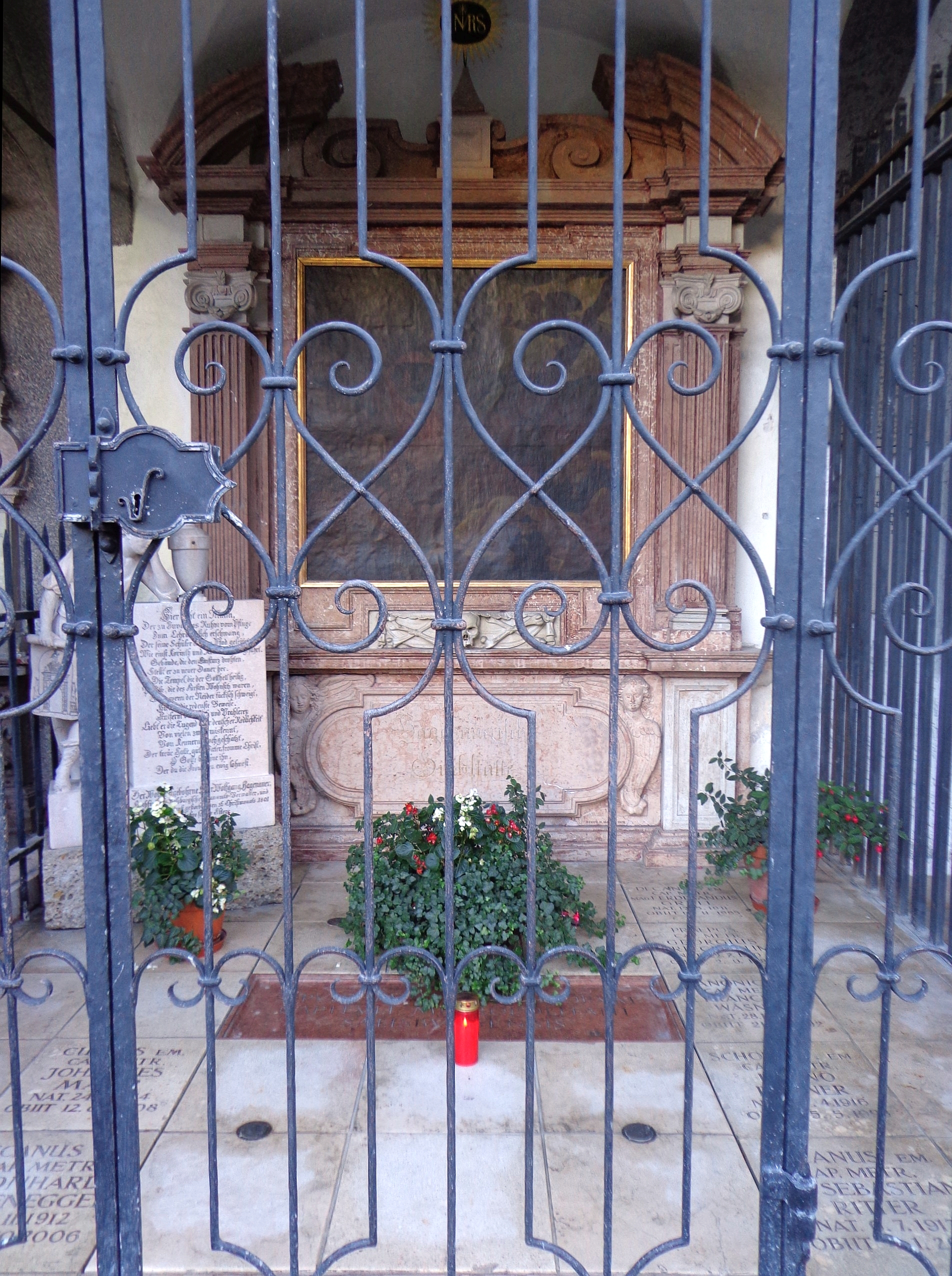 Crypt 52 (Petersfriedhof Salzburg): originally used as burial place by the Hagenauer family, now used as burial place for priests from the Archdiocese of Salzburg. Among those interred here are the architects Wolfgang Hagenauer (1726–1801) and Johann Georg Hagenauer (1748–1835) as well as Dr. Franz Wasner (1905–1992) who acted as priest to the Trapp Family ("The Sound of Music") and arranged some 150 of their songs. Crypt 52 must not be confused with Crypts 15 and 16, which were also owned by the Hagenauer family.